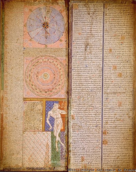 Astronomical and cosmographical diagram; zodiacal man. (BNF, Esp 30) The Catalan Atlas Spain, Majorca.